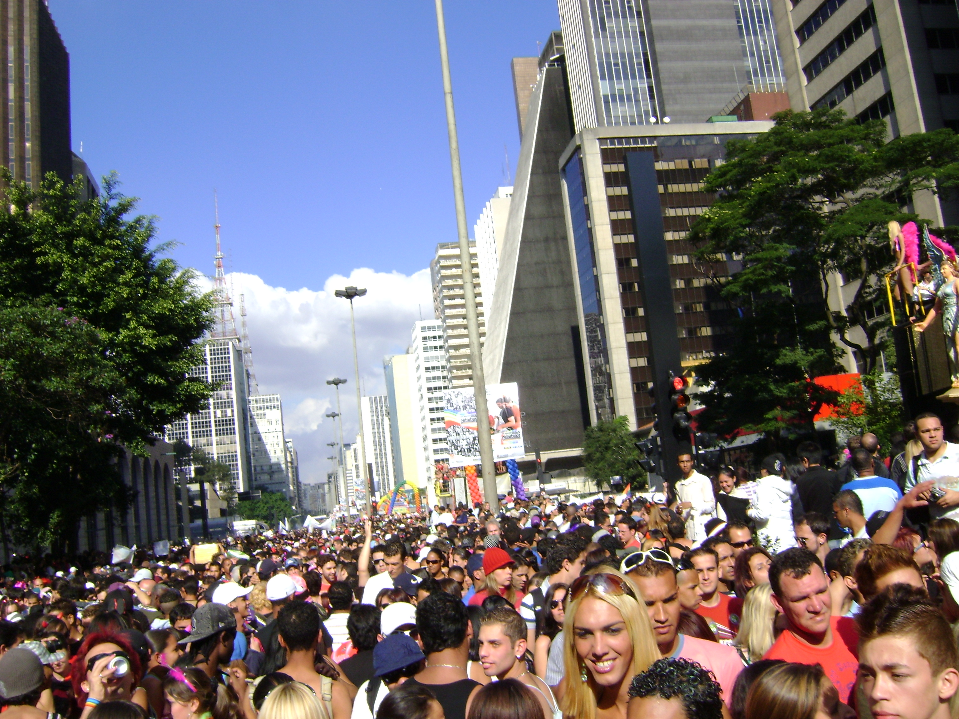 2009 Gay Pride in São Paulo